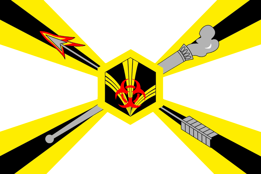 Flag of the Russian NBC Protection Troops.